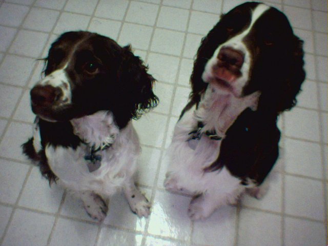 A field and a show English Springer Spaniel